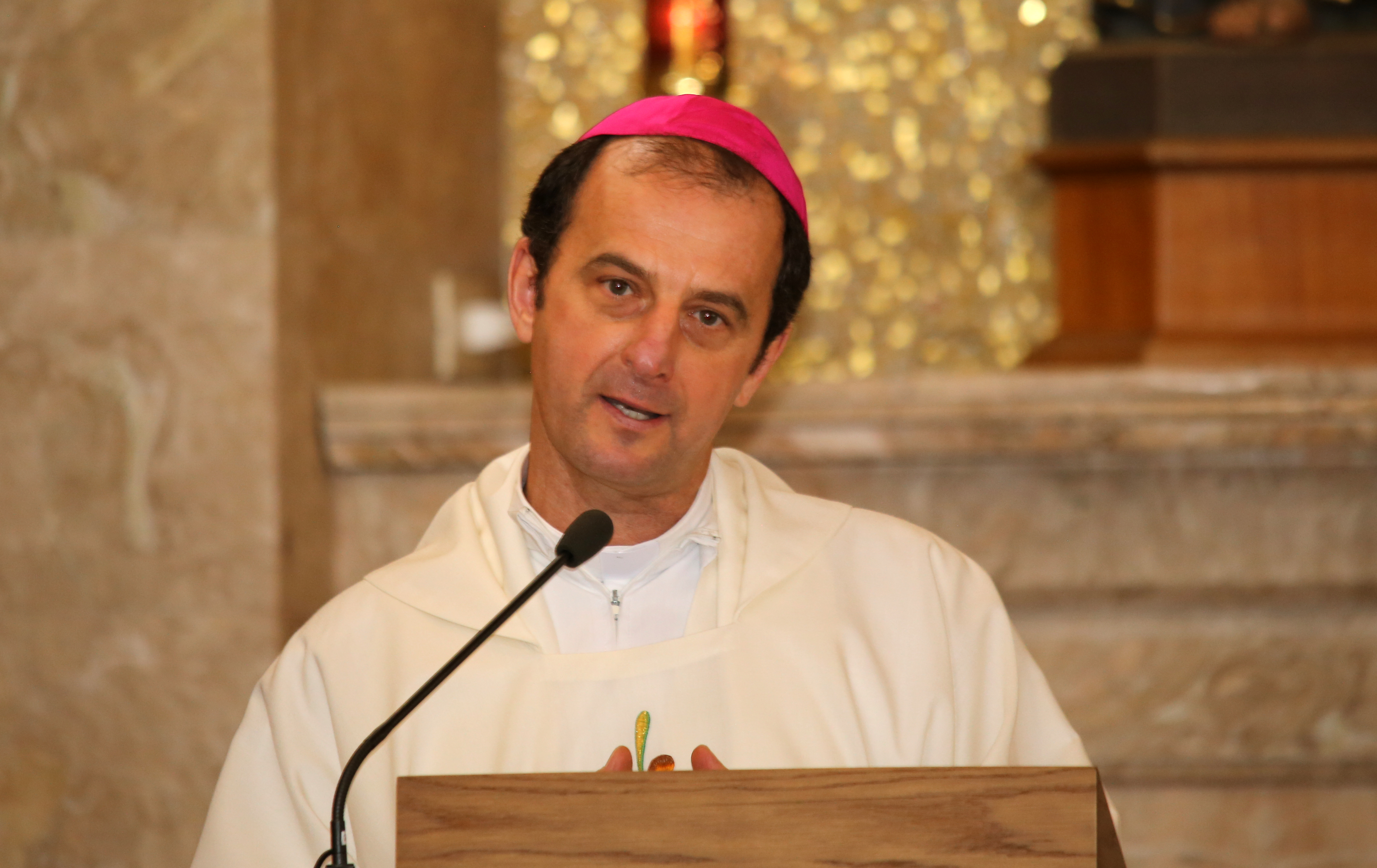 Bishop Edgar Xavier Ertl